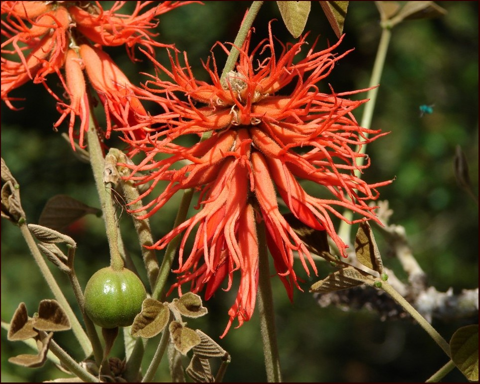 Erythrina abyssinica Native to tropical Africa Location: Mt Coot-tha Botanic Gardens, Brisbane, Australia